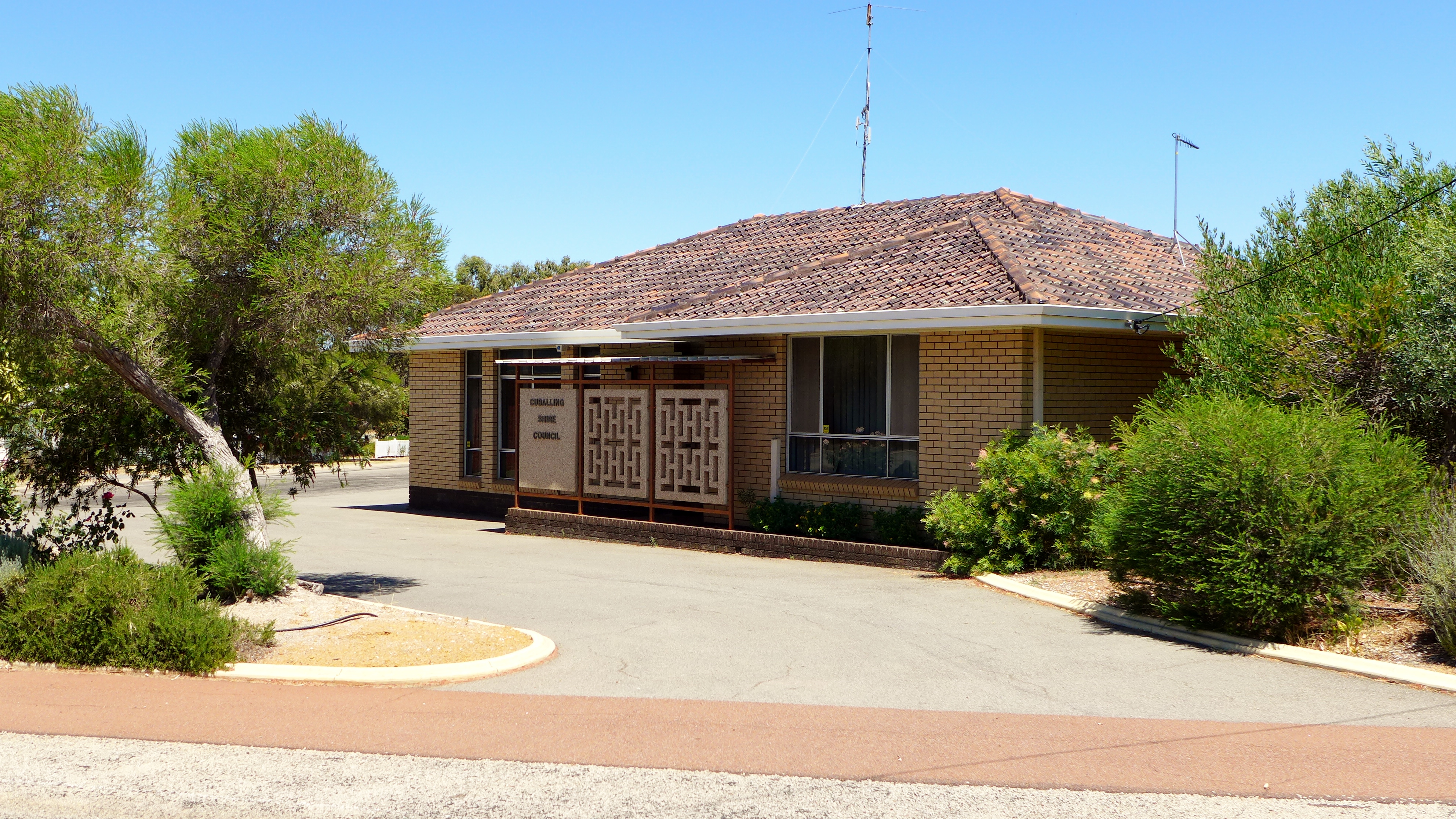 View of the Cuballing shire offices, Cuballing West Road, Cuballing, Western Australia.